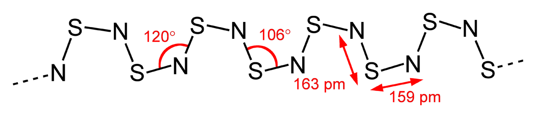 Structural formula of part of a chain of polythiazyl, (SN)x. Structural data from Greenwood, N. N.; Earnshaw, A. (1997) Chemistry of the Elements (2nd ed.), Oxford:Butterworth-Heinemann, pp. p. 727 ISBN: 0-7506-3365-4. Further details of the structure are given in G. Heger, S. Klein, L. Pintschovius and H. Kahlert (1978-01-30). "Determination of the crystal structure of (SN)x by neutron diffraction". Journal of Solid State Chemistry 23 (3-4): 341-347.